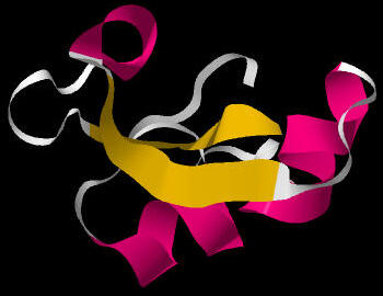 The structure of Hydramacin-1, an antibiotic derived from hydra.